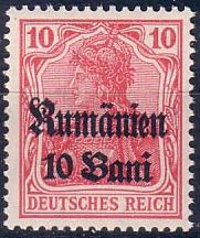 Stamp of Germany, WW1, overprint "Rumänien".